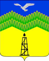 Coat of arms of Ajtyrski, Abinsk raion, Krasnodar krai, Russia.